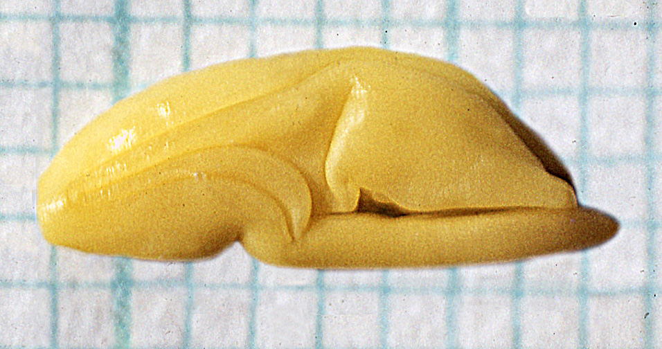 Embryo of Acer negundo